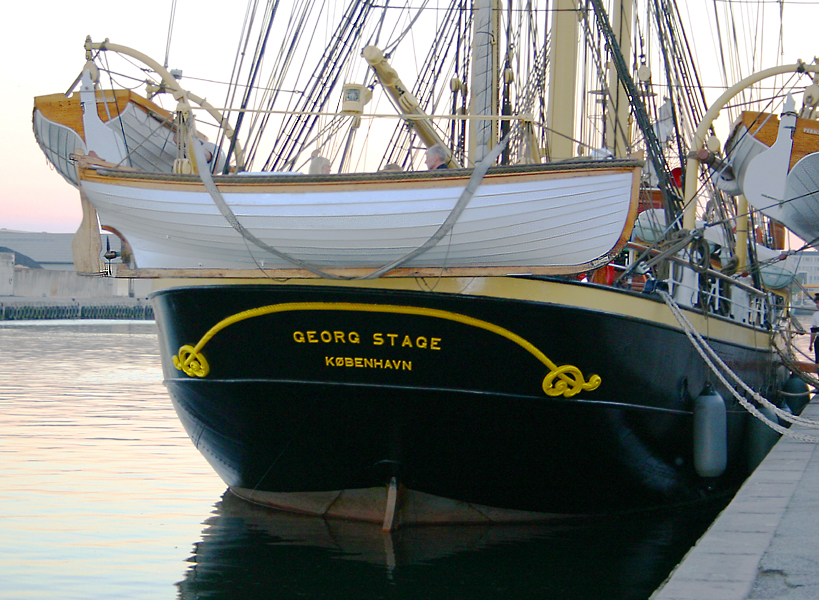 Georg Stage stern. At Kornkajen, Randers Harbour, Denmark.